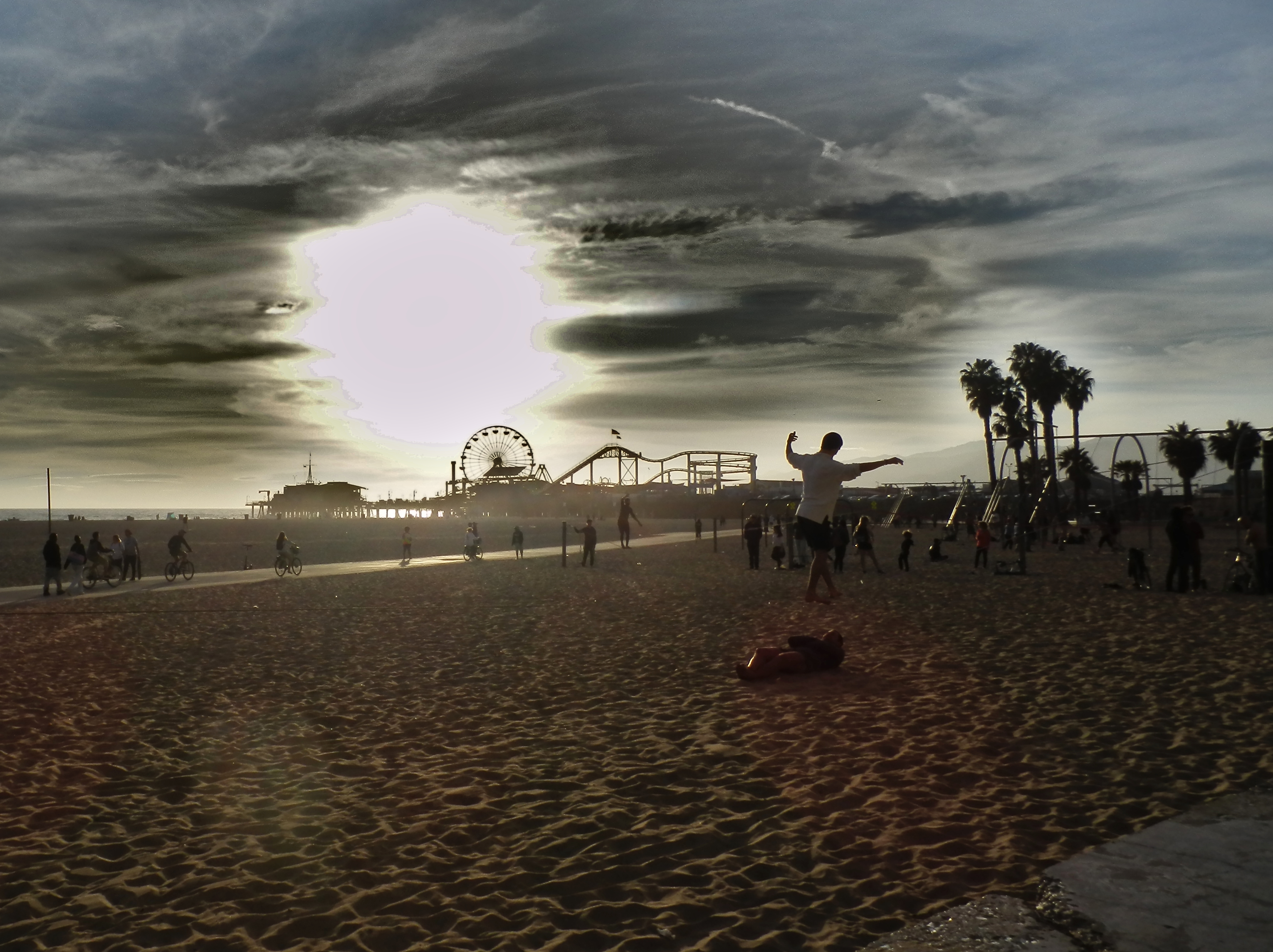 Santa Monica Original Muscle Beach